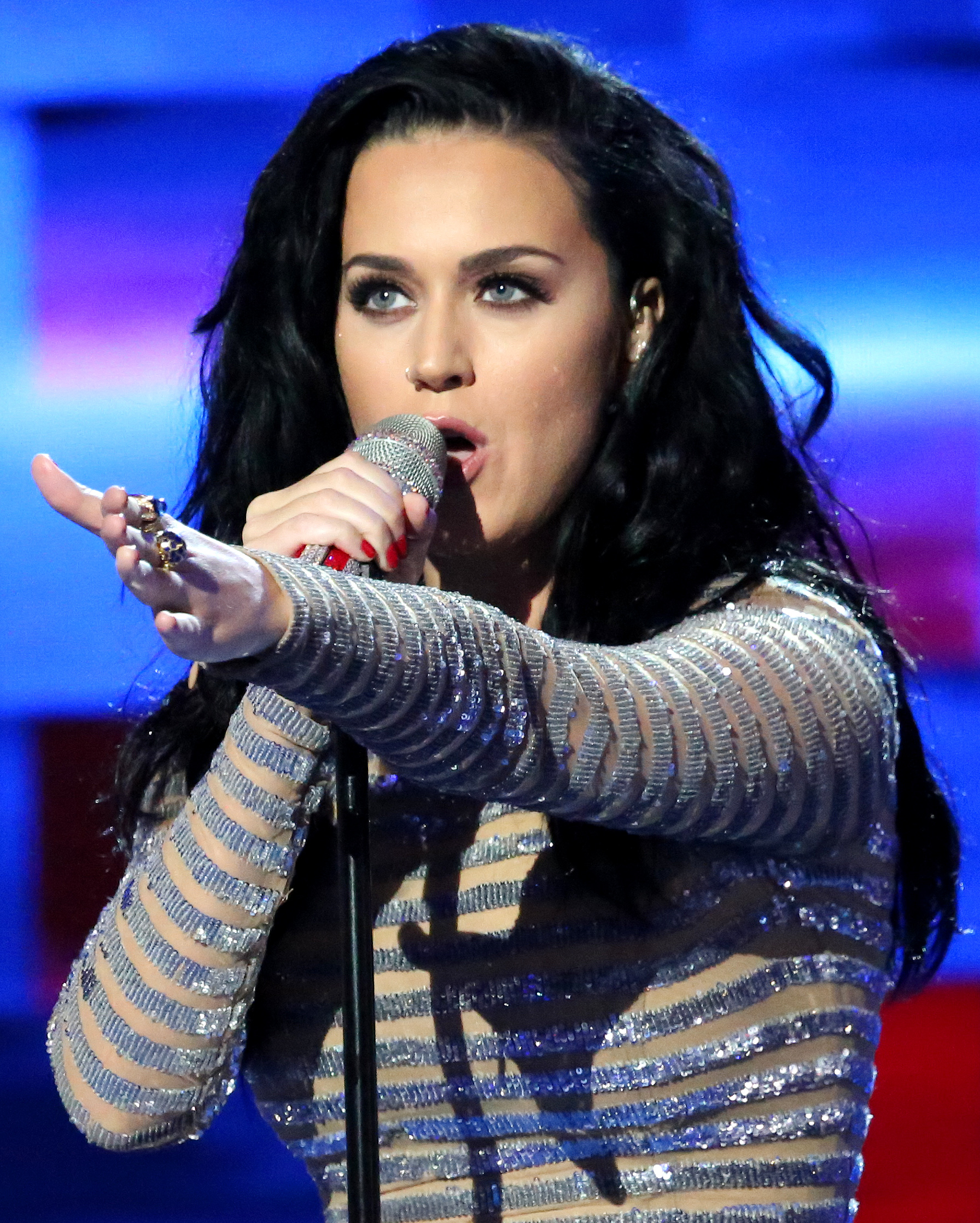 Katy Perry sings to the Democratic National Convention in Philadelphia, July 28, 2016. (A. Shaker/VOA) )